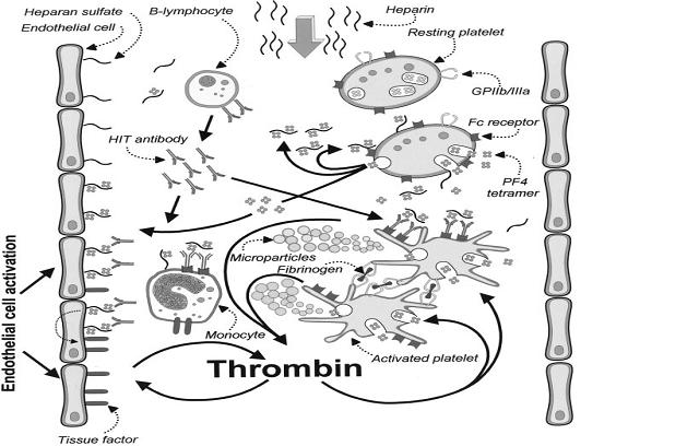 Pathogenesis of heparin-induced thrombocytopenia